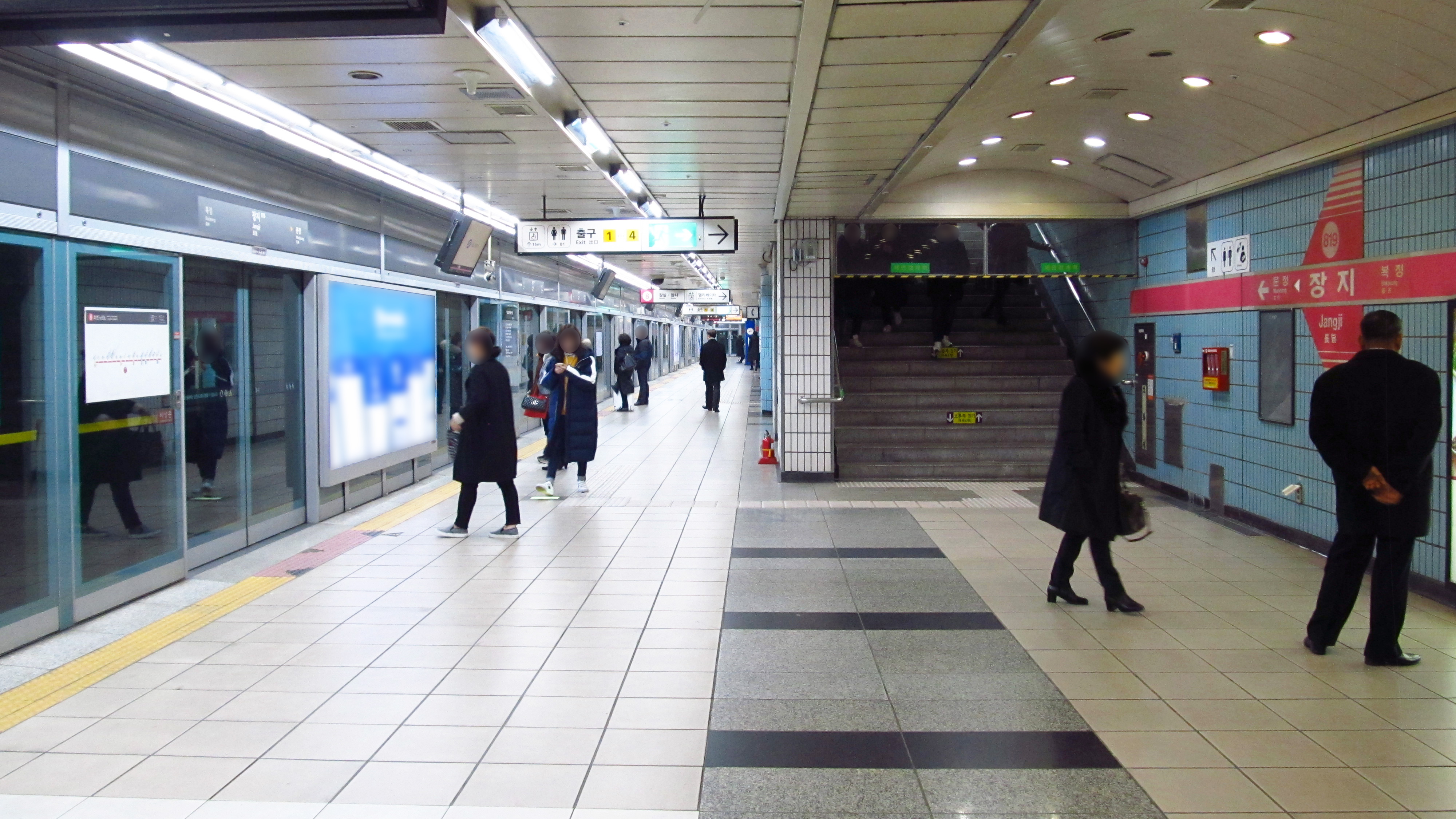 The platform at Jangji Station on Seoul Subway Line 8 in Songpa-gu, Seoul, Republic of Korea(South Korea)